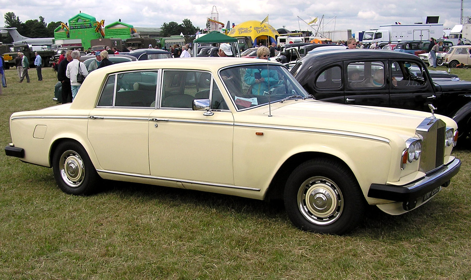 1977 Rolls Royce Silver Shadow II at Kemble Airfield, Kemble, Gloucestershire, England. Taken by Adrian Pingstone in June 2004 and released to the public domain.